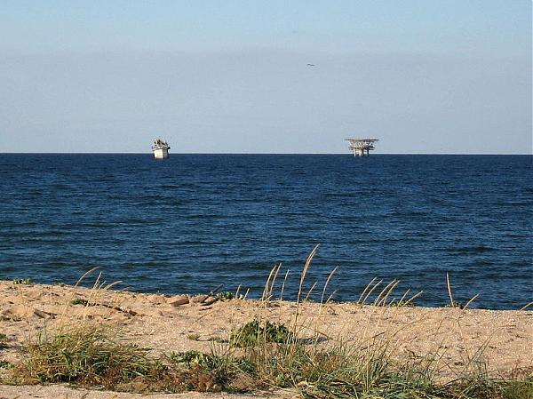 Strilkove Gas Field near Strilkove, Kherson Oblast, Ukraine